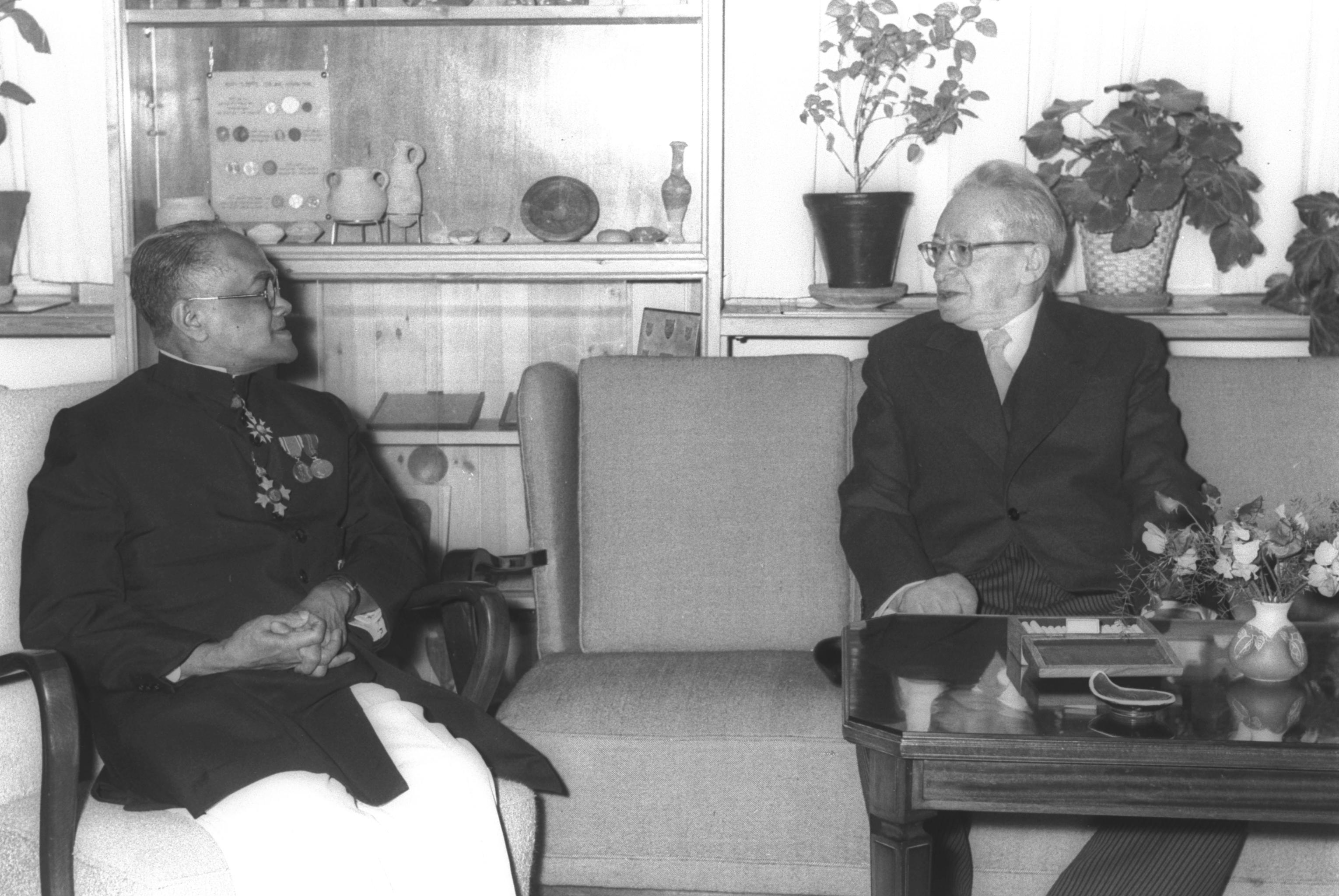 President Yitzhak Ben-Zvi meets with the first Ceylonese ambassador in Israel Arthur Godwin Ranasinha